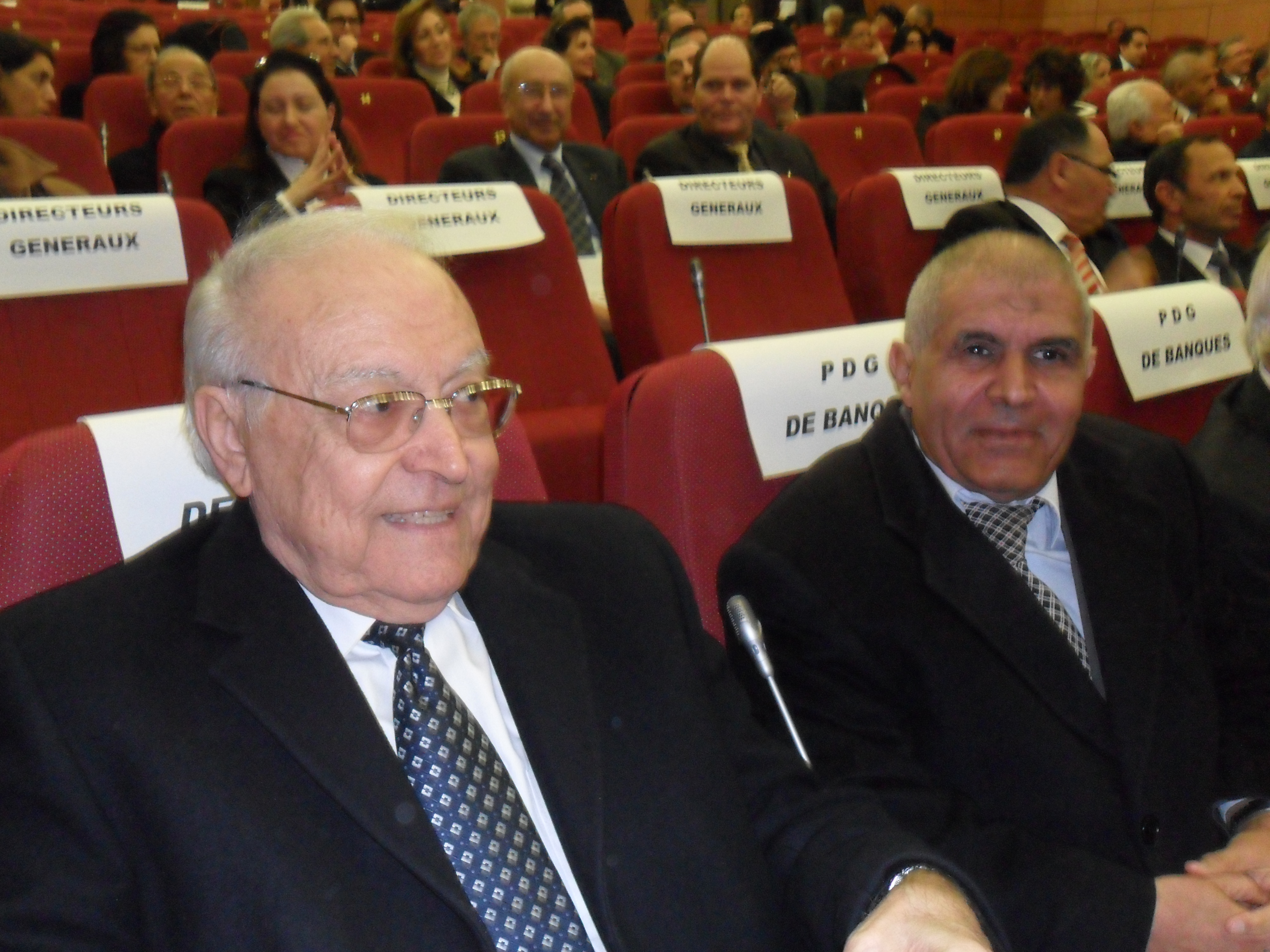 Former Tunisian ministers Rachid Sfar and Mohamed Jeri